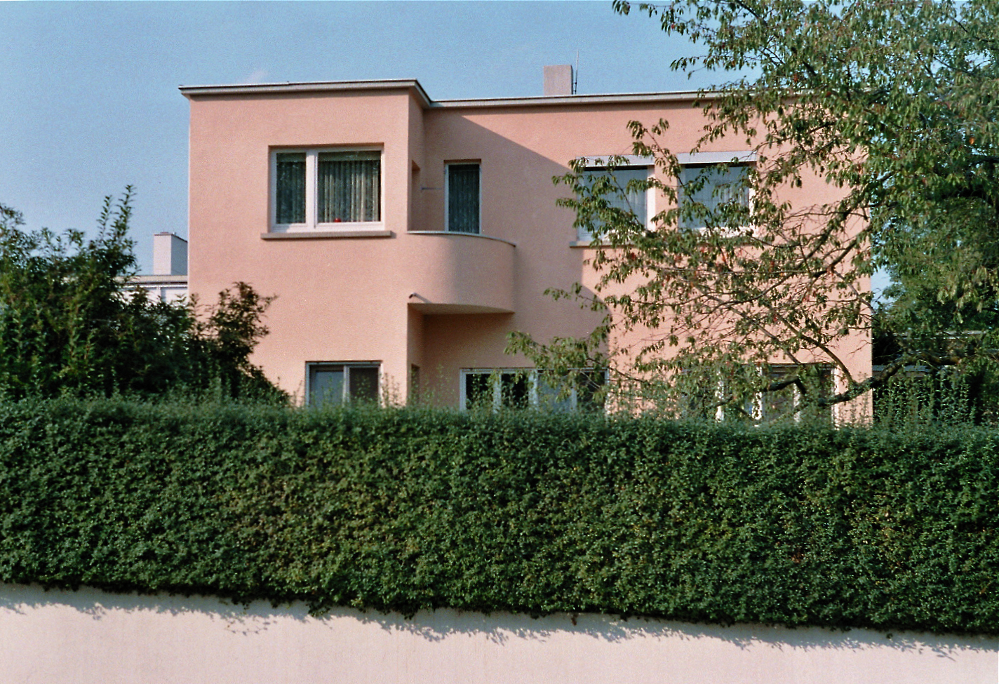 Stuttgart, Weissenhofsiedlung, house by Victor Bourgeois. 1927, international style.